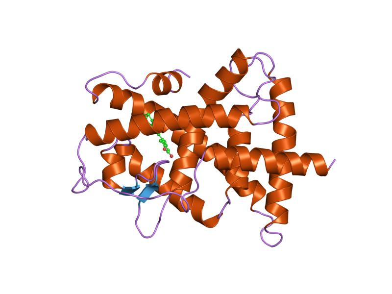 Cartoon representation of the molecular structure of protein registered with 3lbd code.